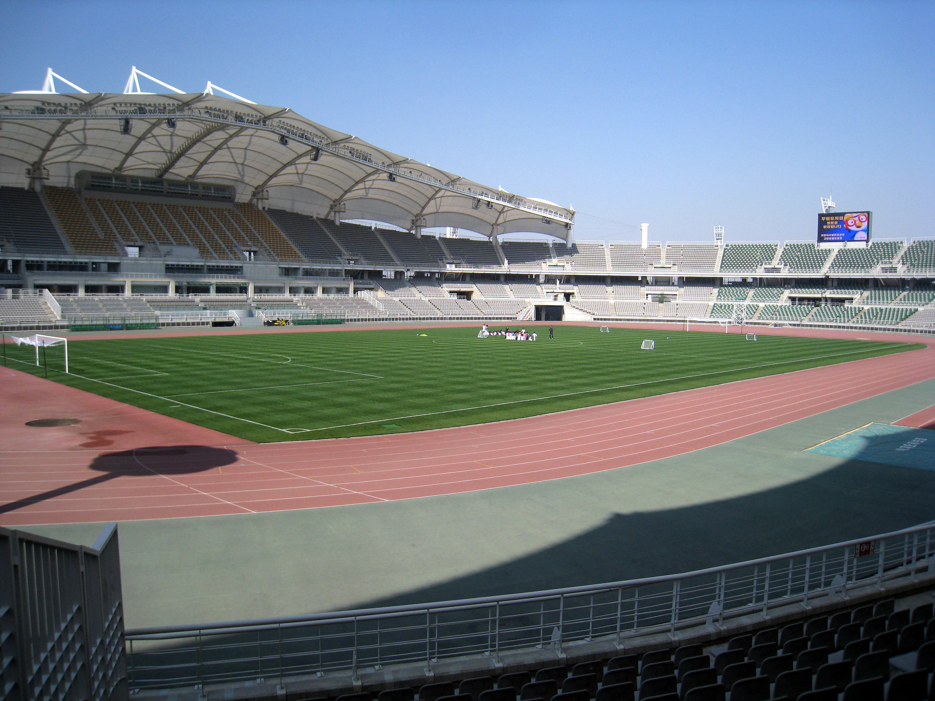 Goyang-si SportsStadium. Goyang, Gyeonggi-do,South Korea.